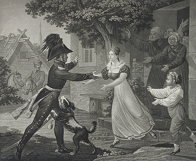 "Erwacht! Der Fritz ist wieder da!" "Das Vaterland ist frey! Viktoria!" Friedrich Wilhelm Meyer nach Ulrich Ludwig Wolf. Mezzotint, Bogen 23.97 x 28.89 cm.